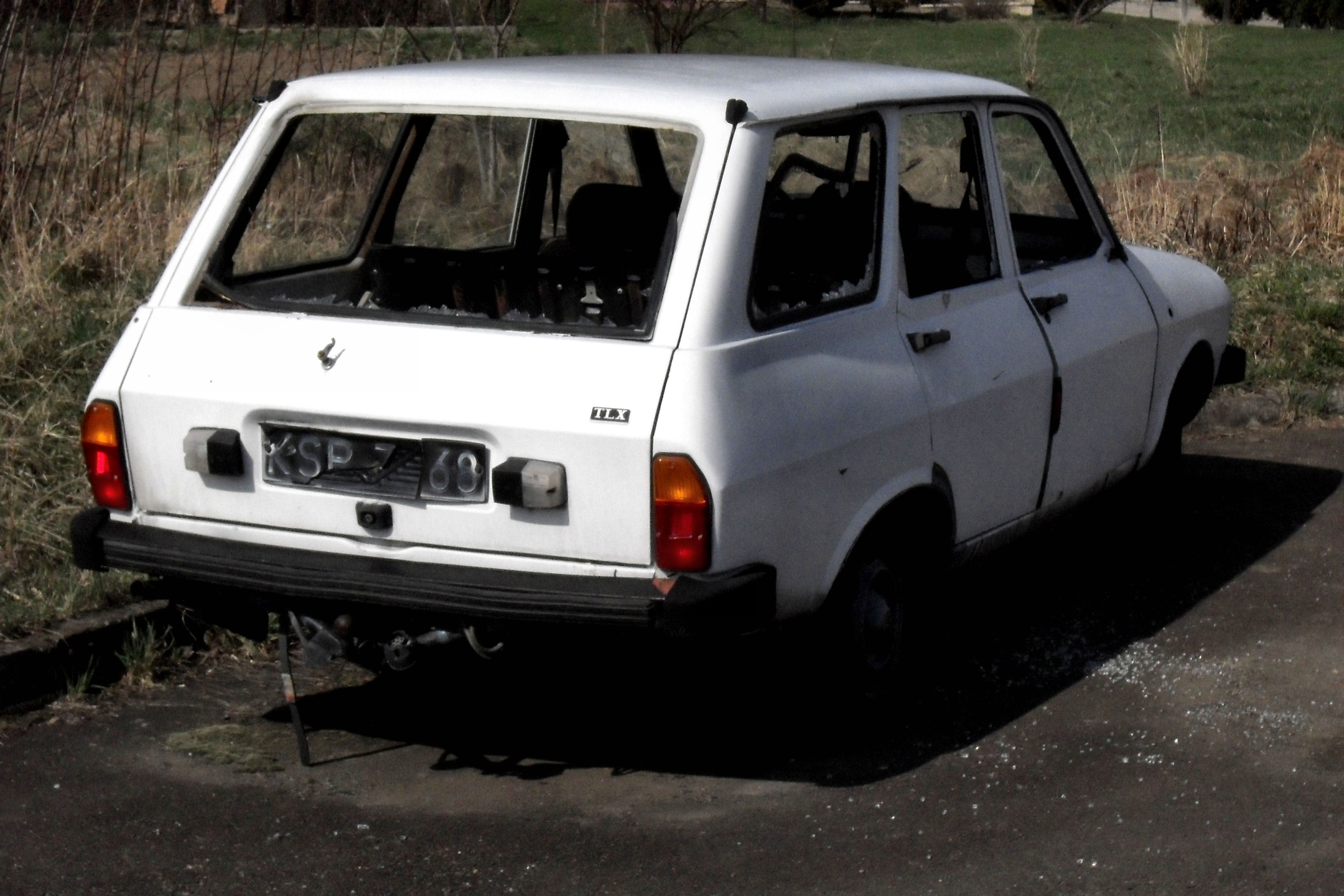 Wrecked Dacia 1310 station wagon. Seen in suburbs of Jasło.